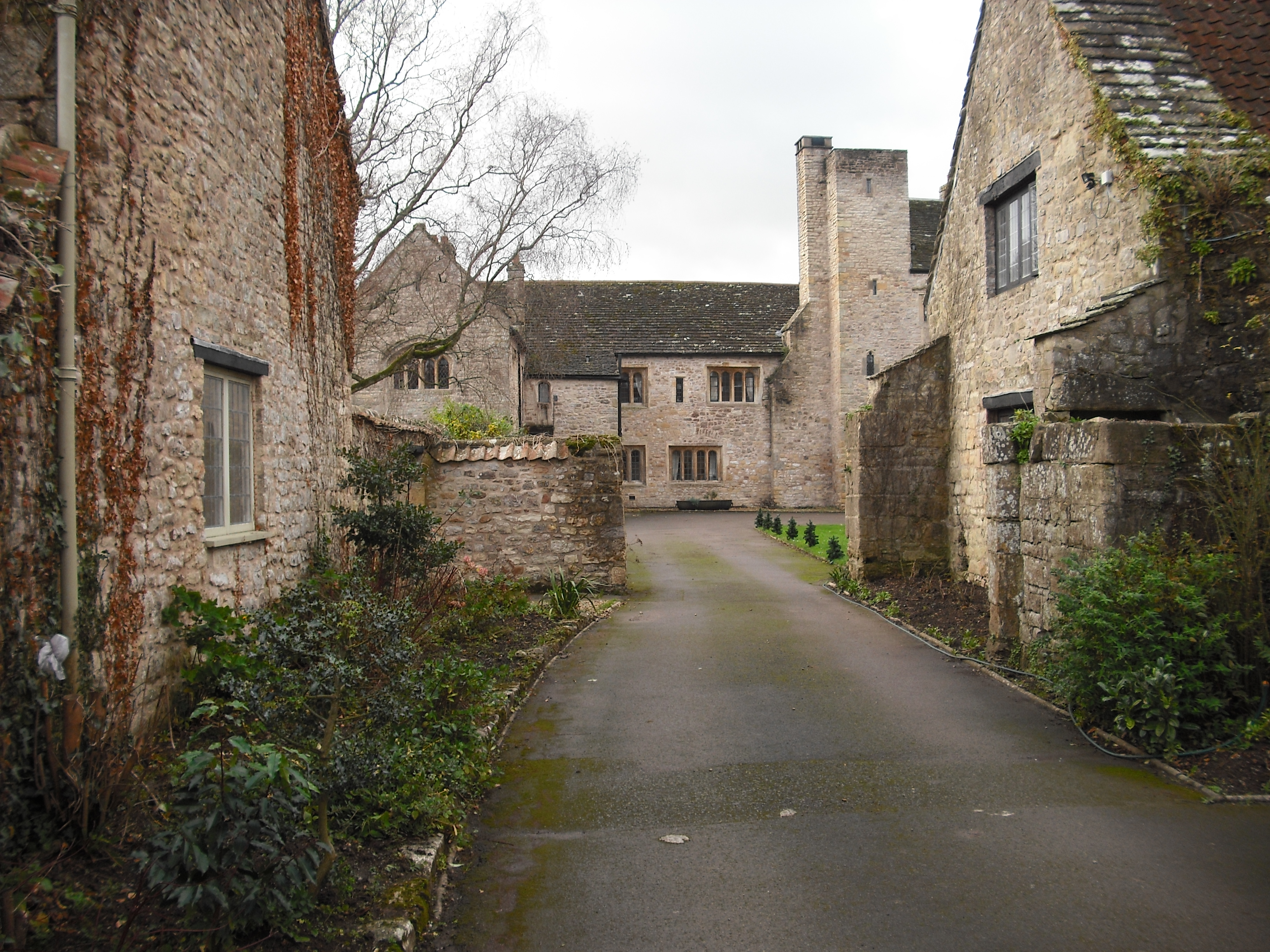 Entrance at the Mathern Place, Mathern, Monmouthshire, Wales